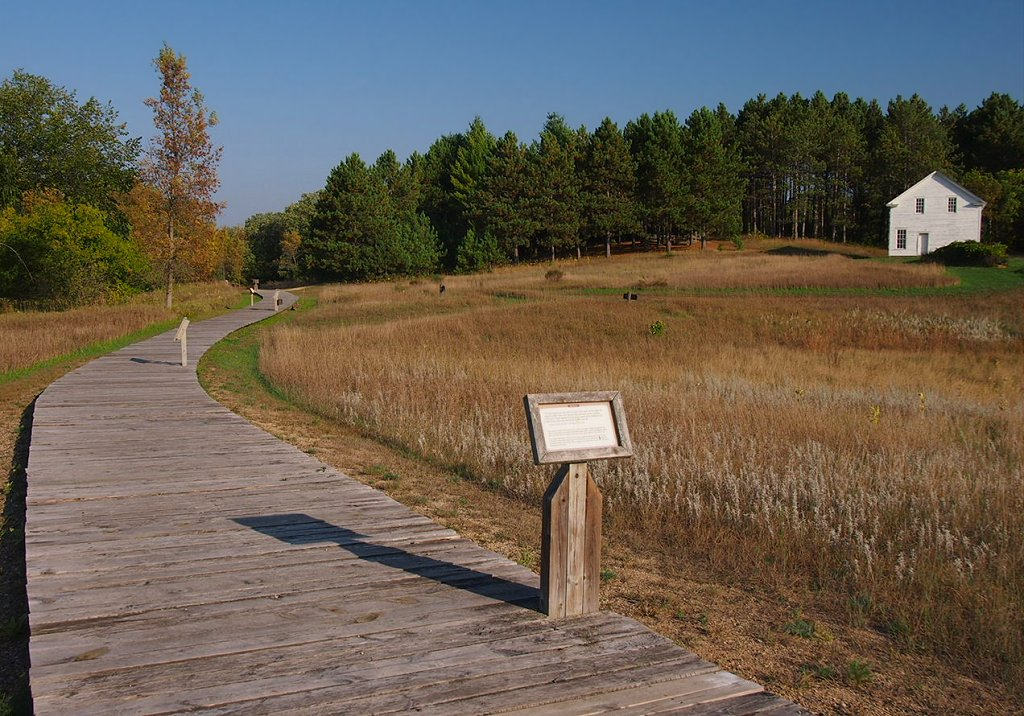 Old Crow Wing townsite in Crow Wing State Park, Minnesota, USA. View includes the 1849 Clement Beaulieau House, a replica of the town's original wooden sidewalk, and interpretive signage marking former structures.